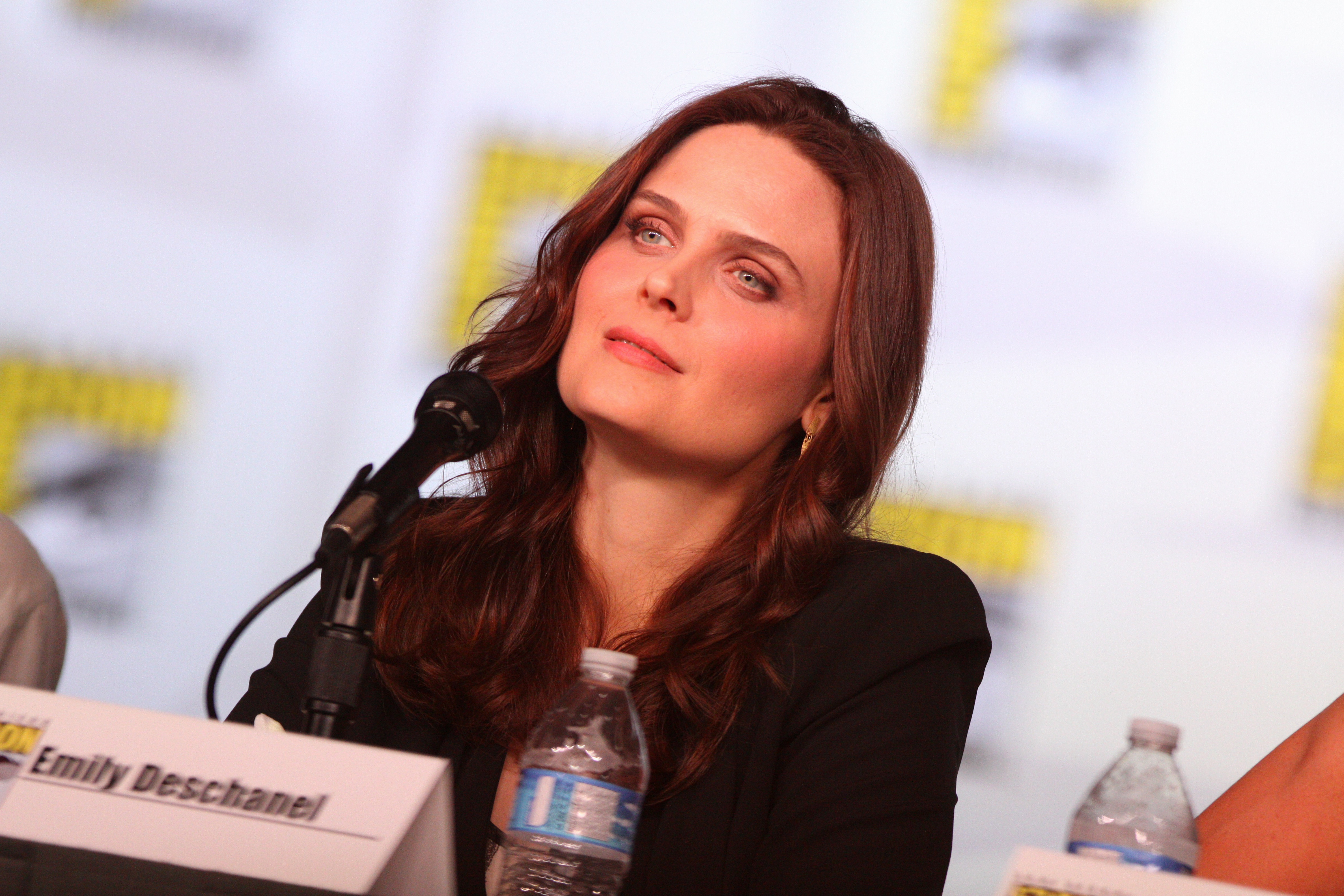 Emily Deschanel speaking at the 2012 San Diego Comic-Con International in San Diego, California.